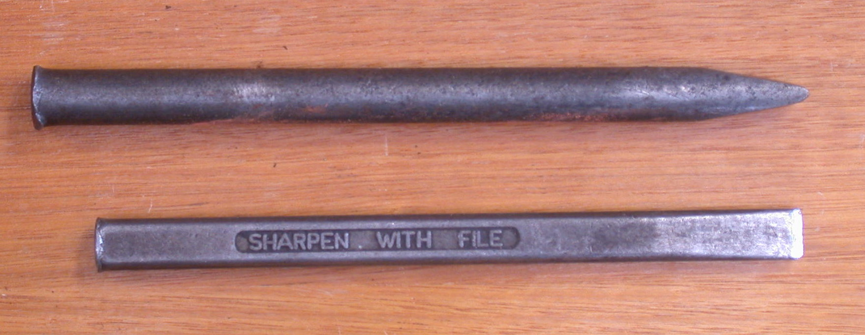 Photograph taken by Glenn McKechnie on the 24th March 2005. Side view and top view of two metal working cold chisels. Both have mushroom heads developing (peening of metal where the hammer strikes the chisel).